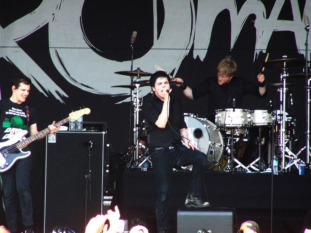 My Chemical Romance performing at the Big Day Out music festival at Claremont showgrounds in Perth, Australia.